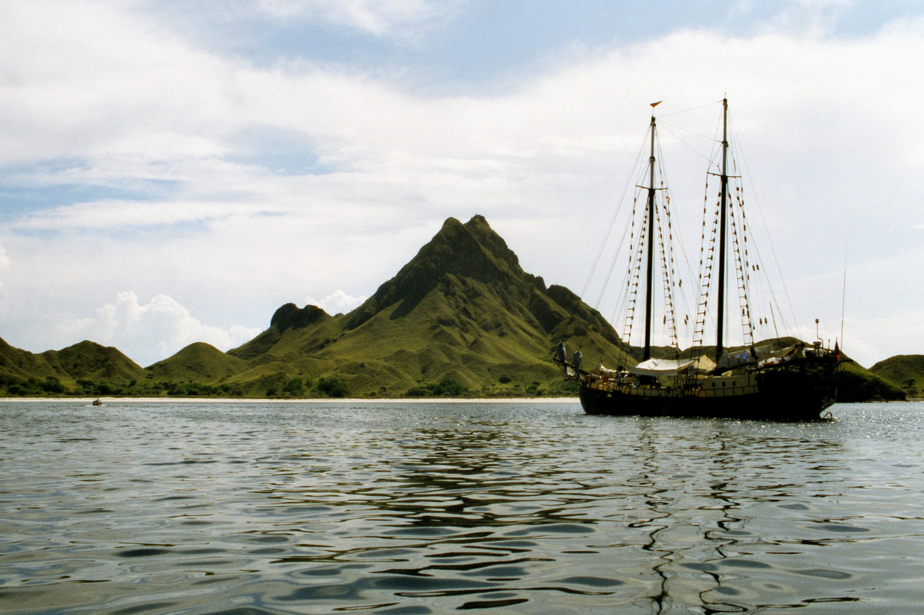 1998 Adelaar off Padar Island.